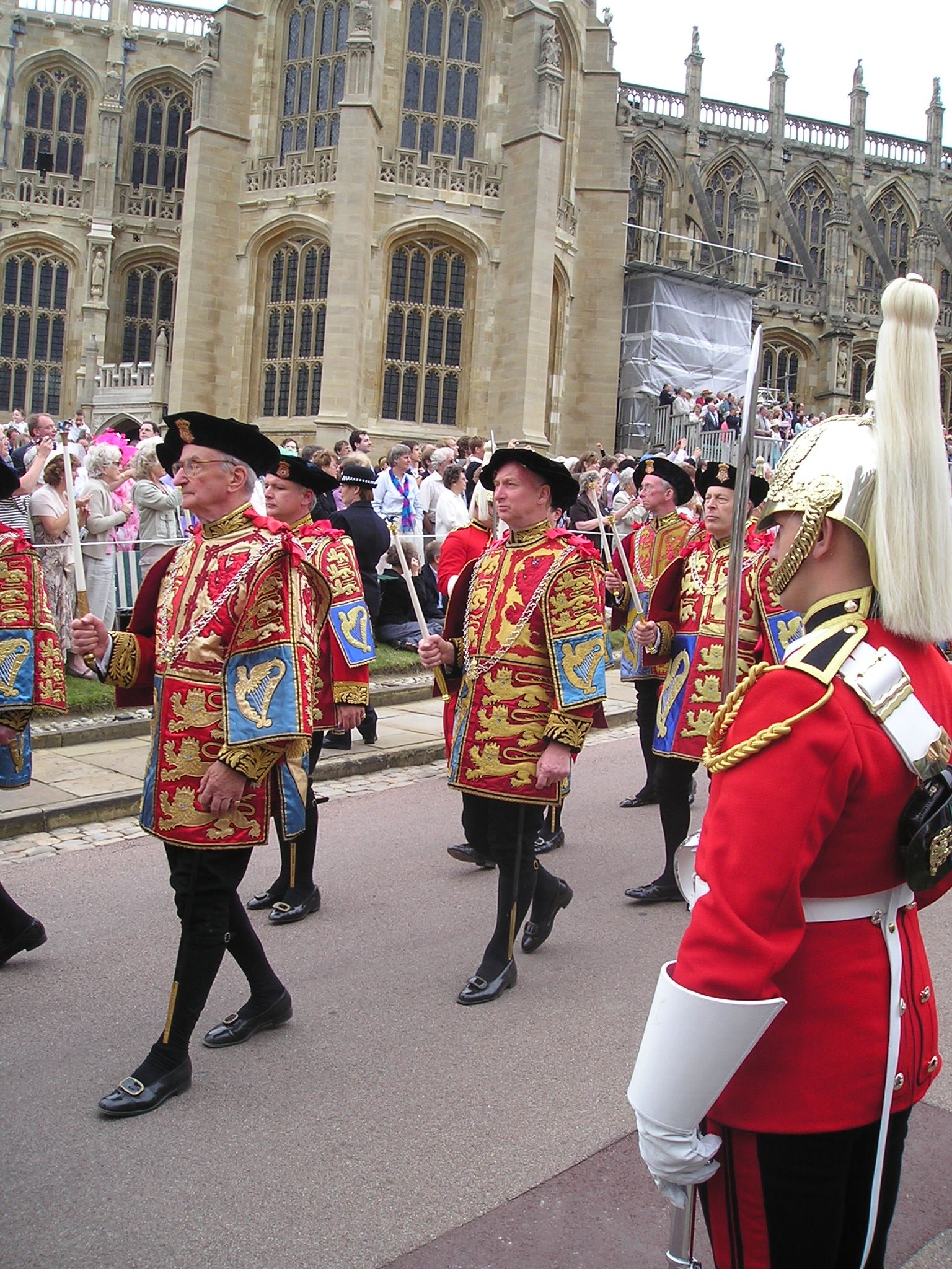 Heralds in procession to St George's Chapel, Windsor Castle for the annual service of the Order of the Garter. (l-r) Wales Herald of Arms Extraordinary (Michael Siddons), Somerset Herald of Arms in Ordinary (David White), Maltravers Herald of Arms Extraordinary (John Robinson), York Herald of Arms in Ordinary (Henry Paston-Bedingfield), Windsor Herald of Arms in Ordinary (William Hunt).